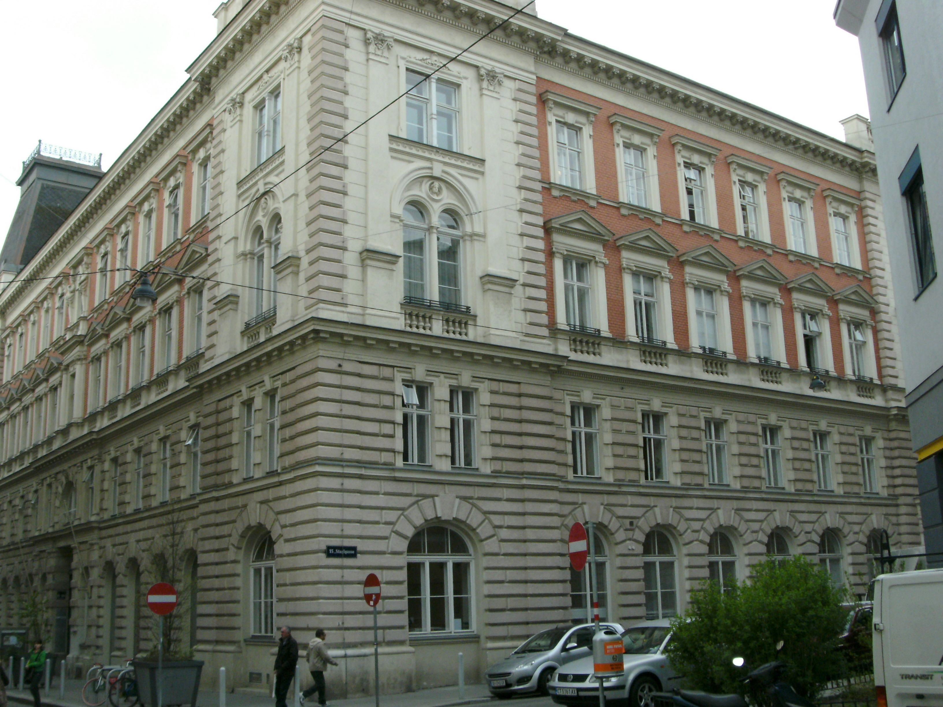 Amtshaus (municipal building) for Vienna's 15th district, Rudolfsheim-Fünfhaus